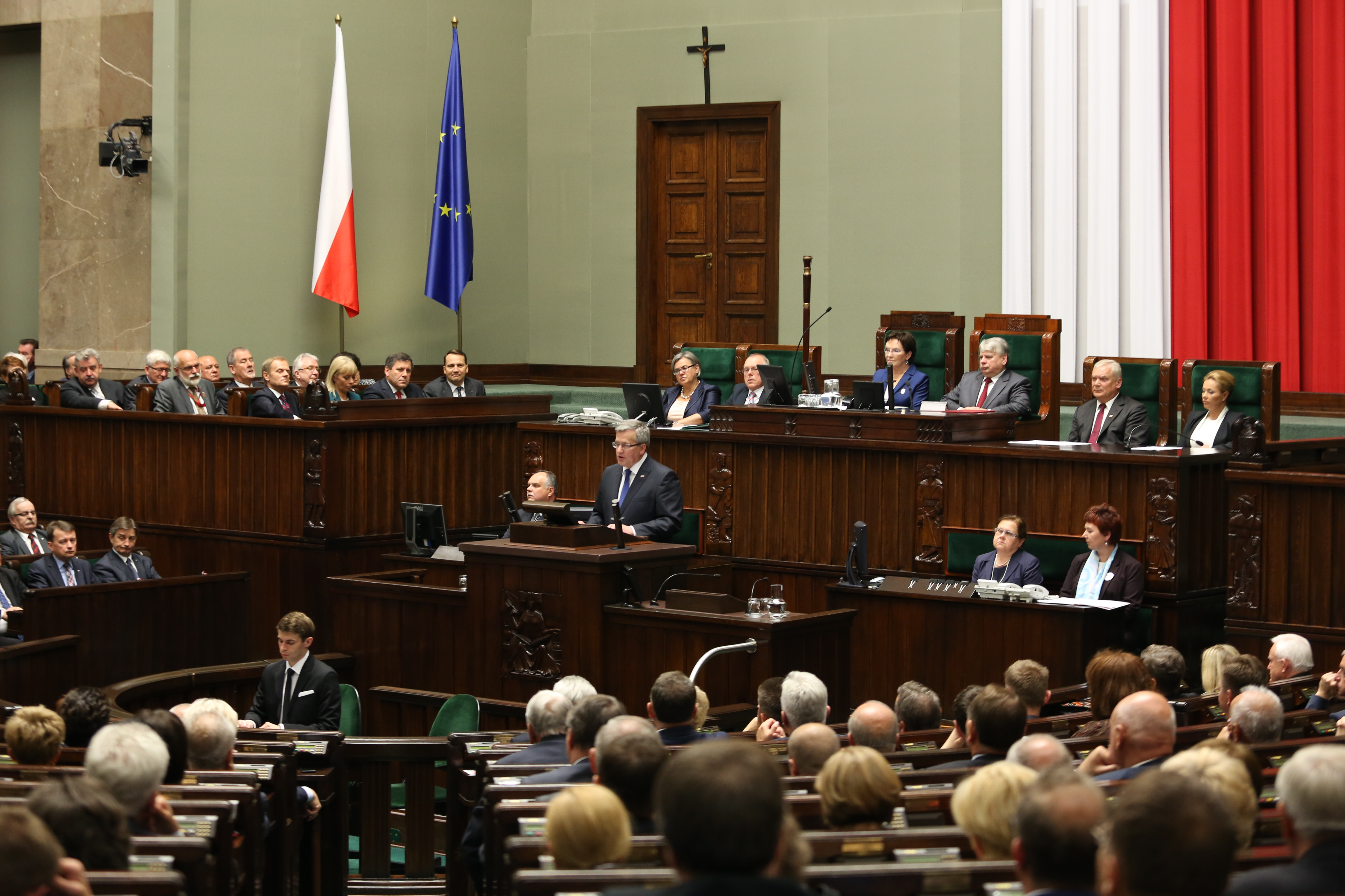 A National Assembly sitting on June 4th 2014